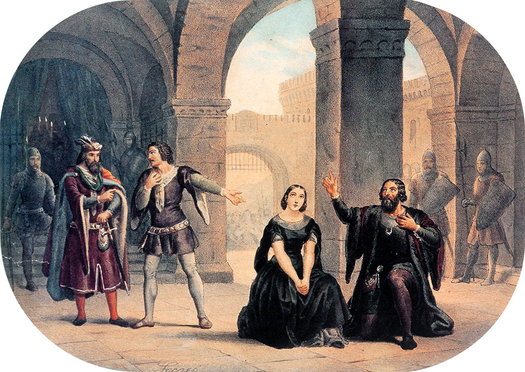 Design for Giuseppe Verdi's I vespri siciliani (1855) by Roberto Focosi (father of Alessandro Focosi)